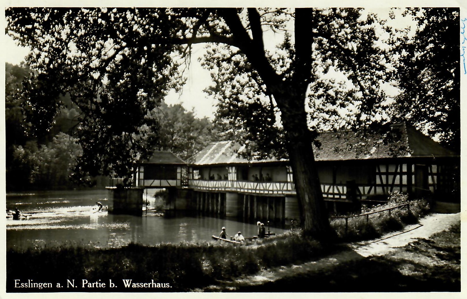 Terrain around the water house in Esslingen am Neckar, postcard